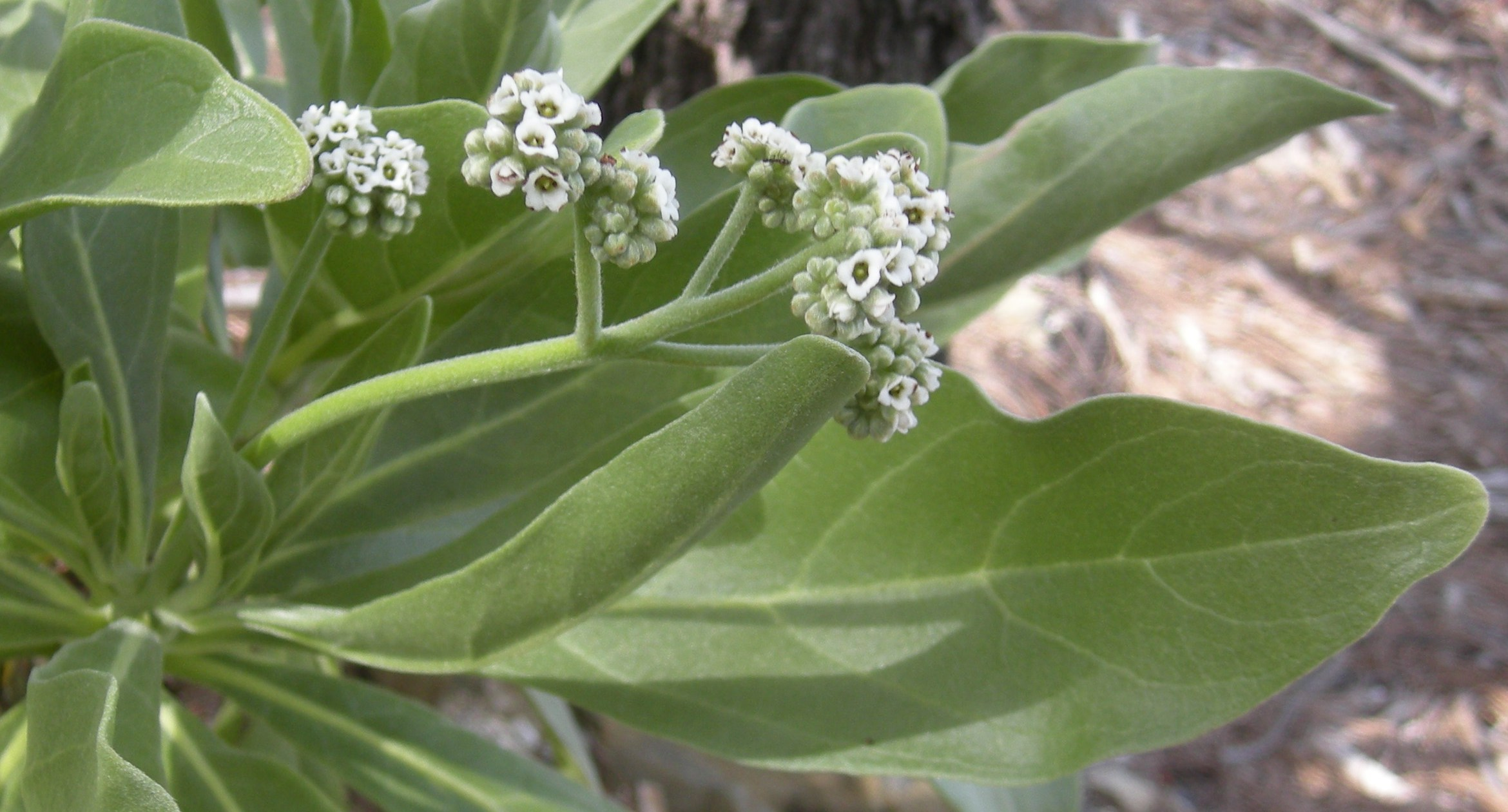 Argusia argentea (Heliotropium foertherianum) flowers